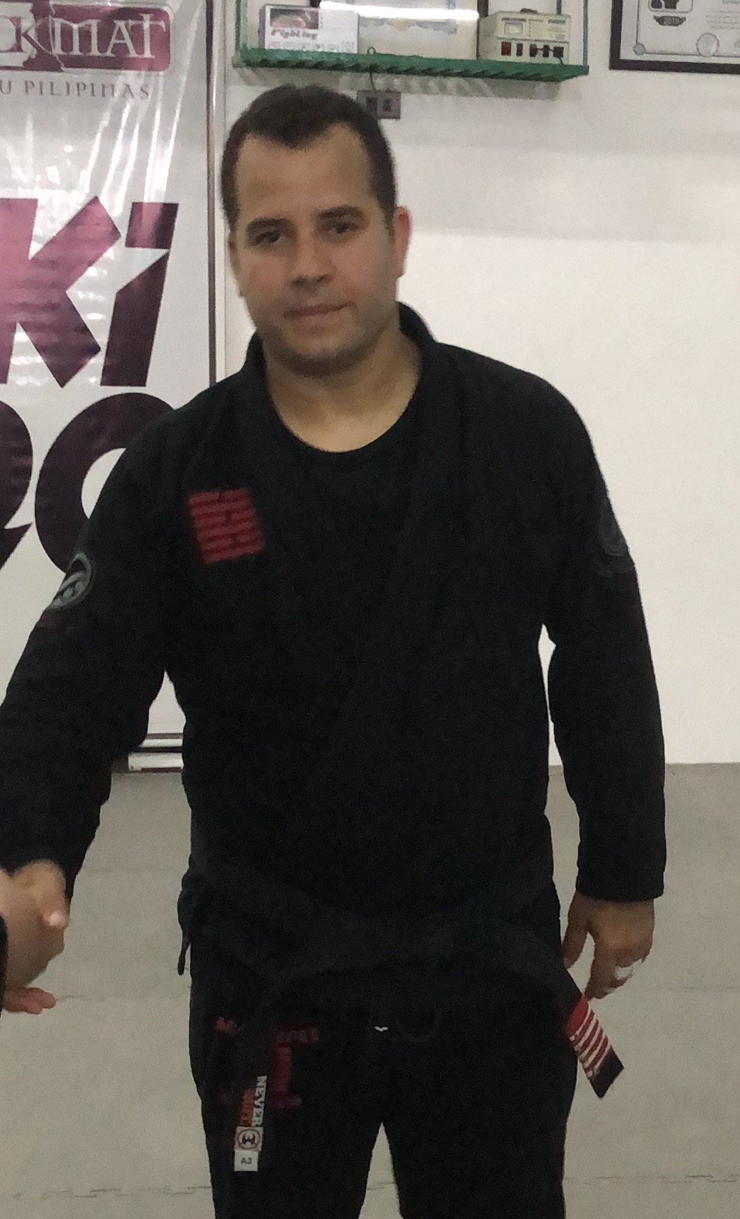 Leo Vieira during a seminar at the Checkmat Philippines Headquarters on May 5, 2019